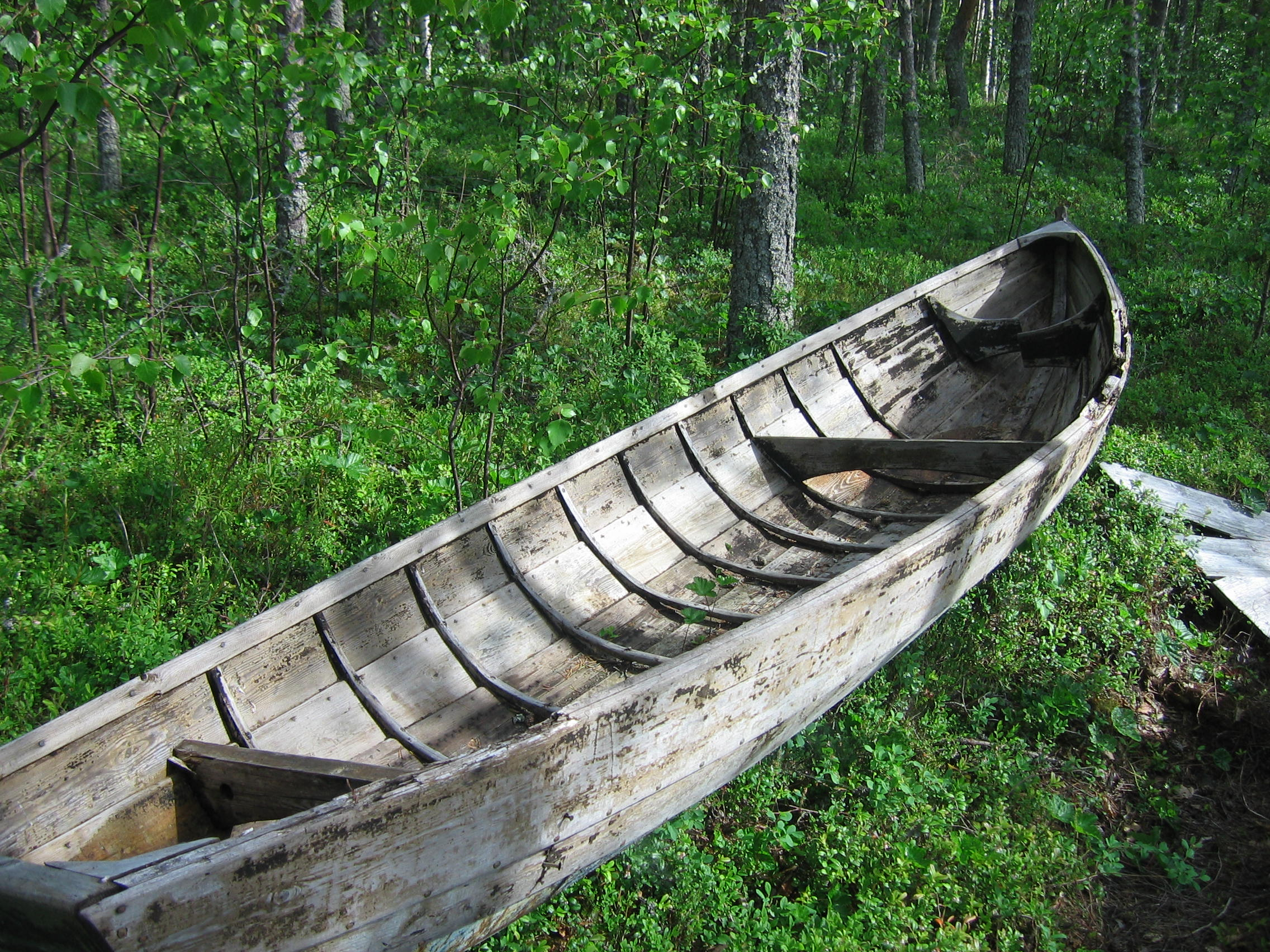 Old forgotten rowboat in Utajärvi, Finland.